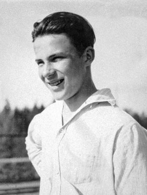 Photograph of the Finnish writer Ralf Parland (1914–1995).